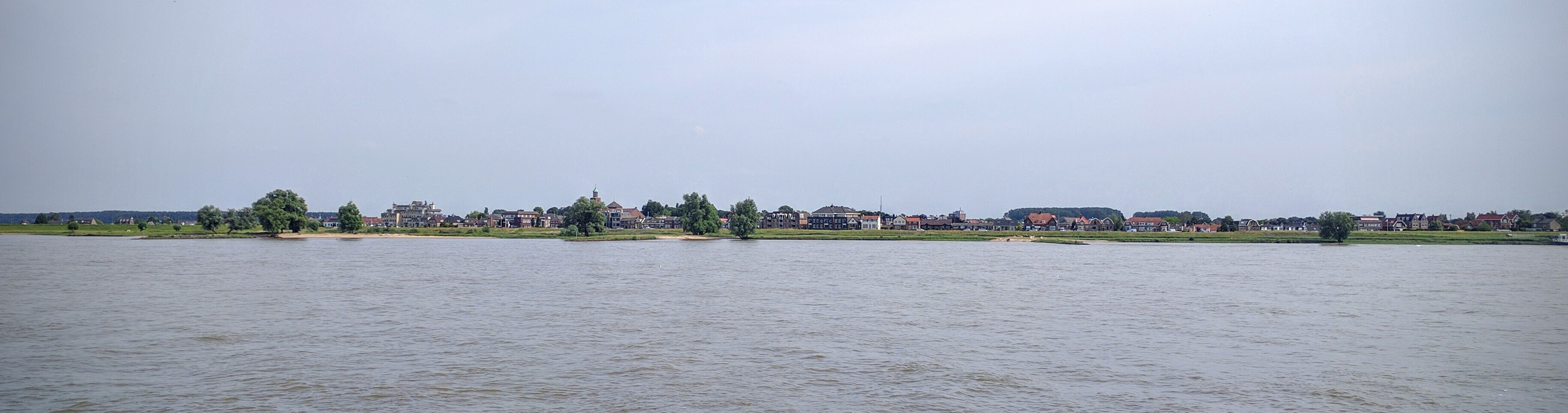 View of Werkendam and the Merwede river